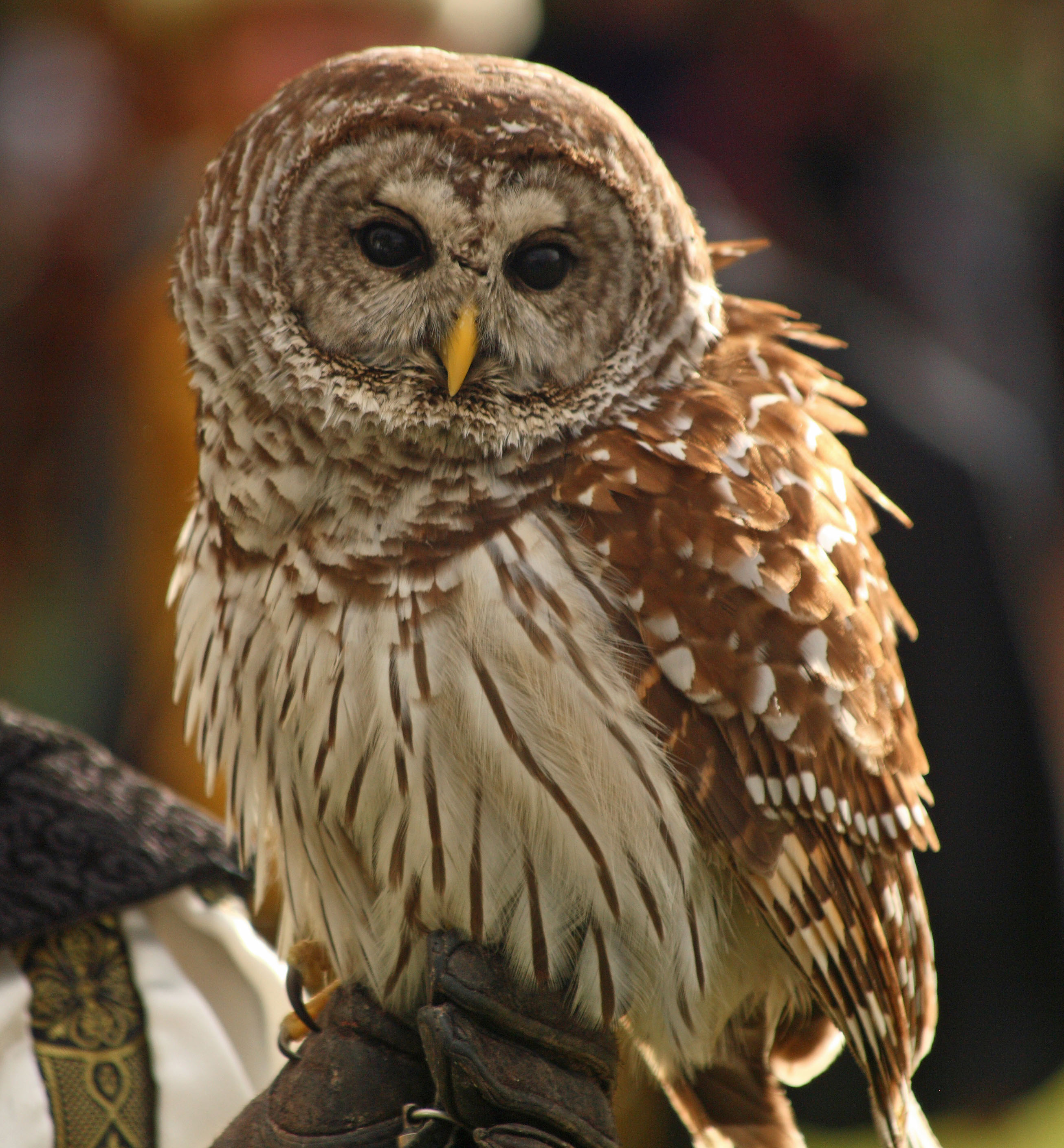 A Barred Owl on show at Arizona Renaissance Festival, Apache Junction, Arizona, USA.